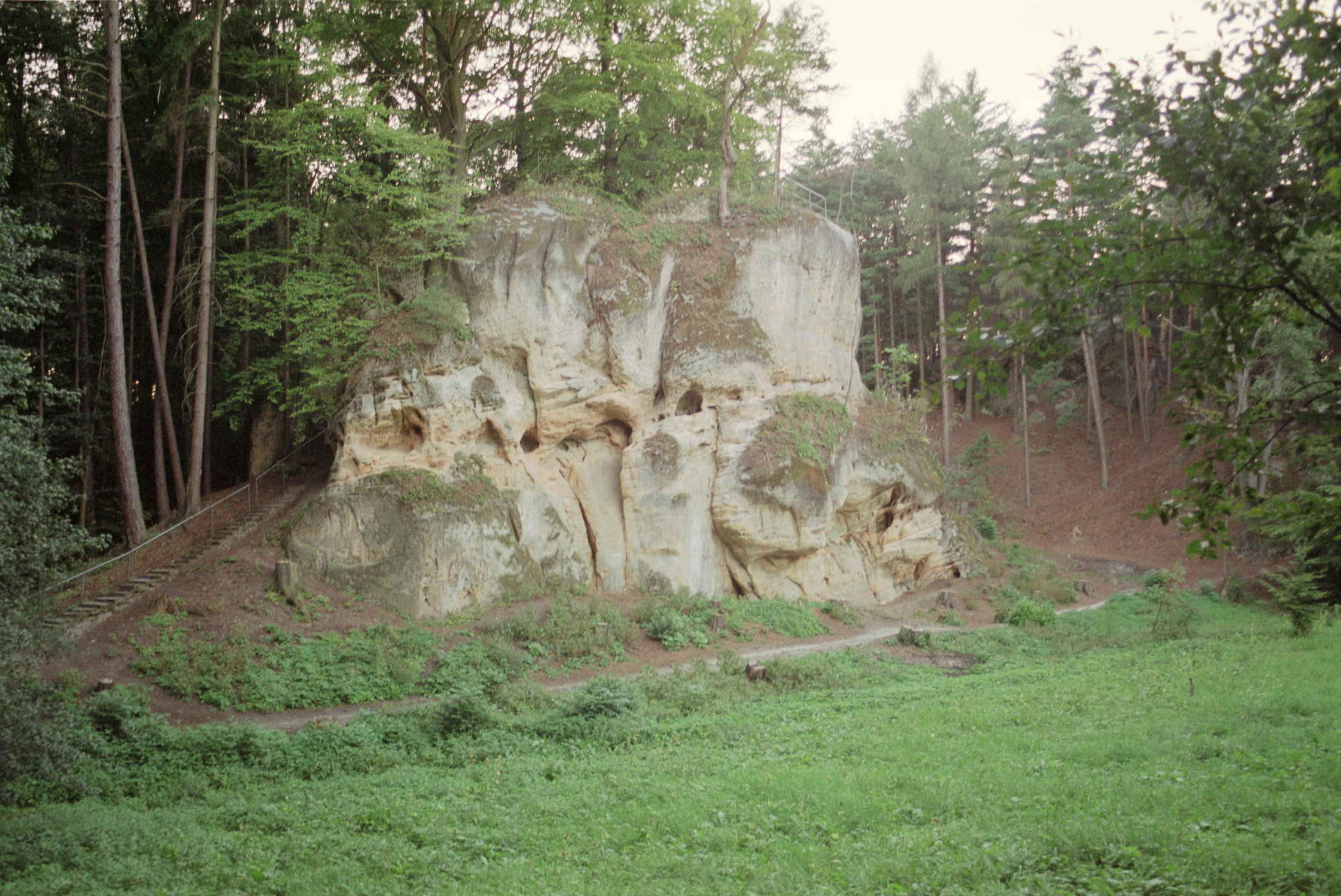 Hrad Pařez in Czech Republic own picture, taken in late summer 2004